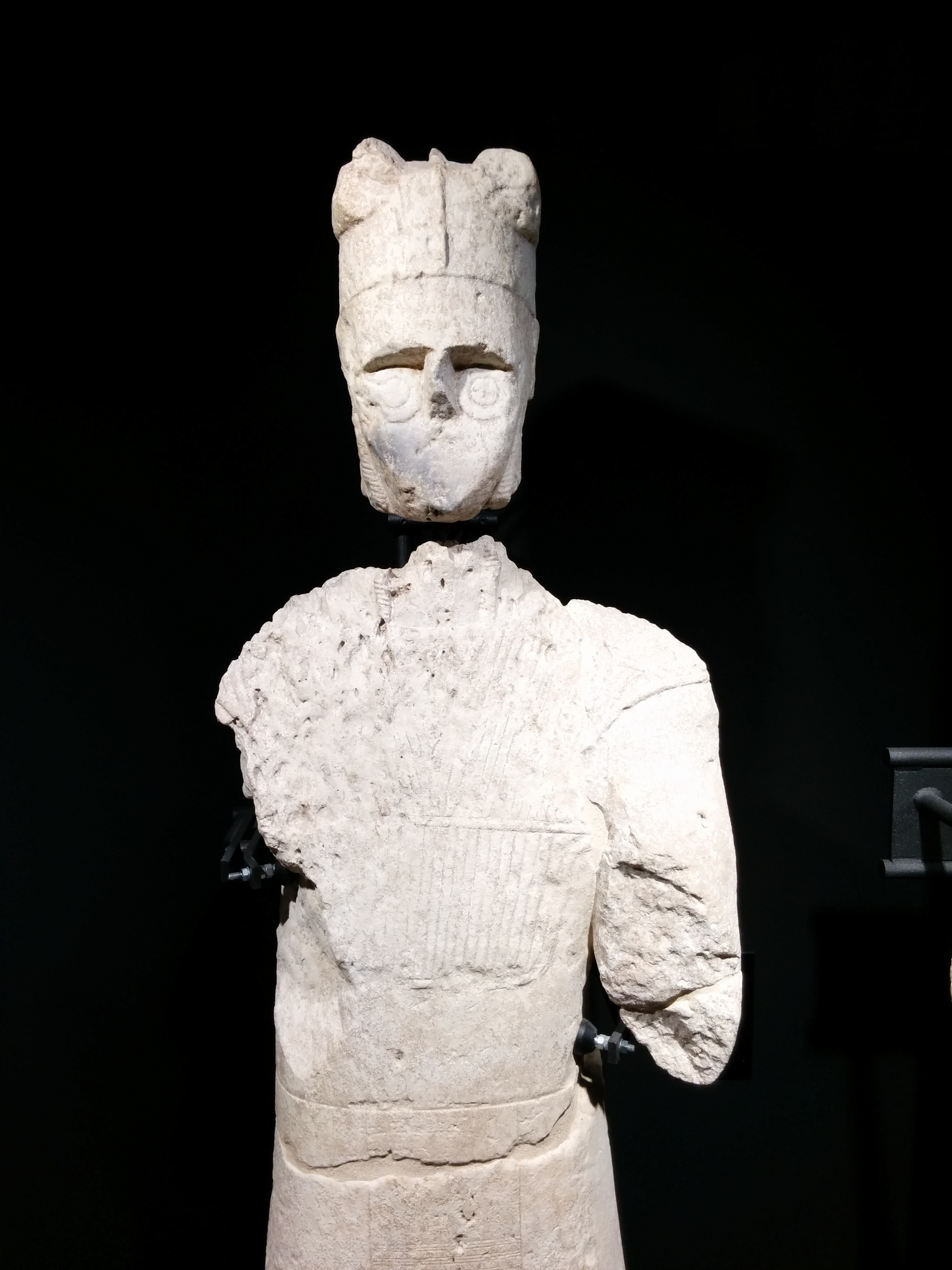 Gigante di Monte Prama - Soldier